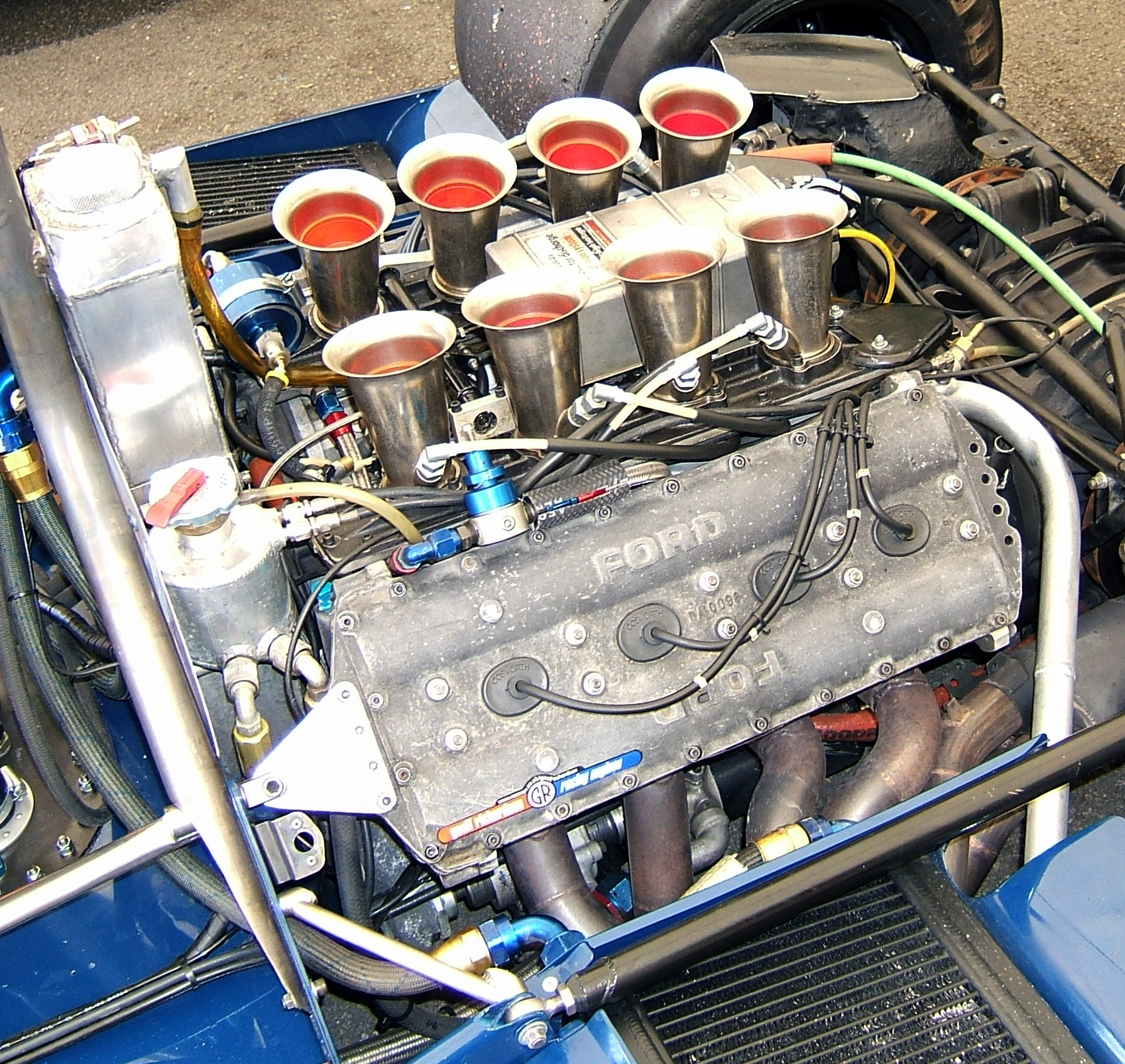 A Cosworth DFV F1 V8 engine (2993cc) installed in the back of a Tyrrell 008 car.